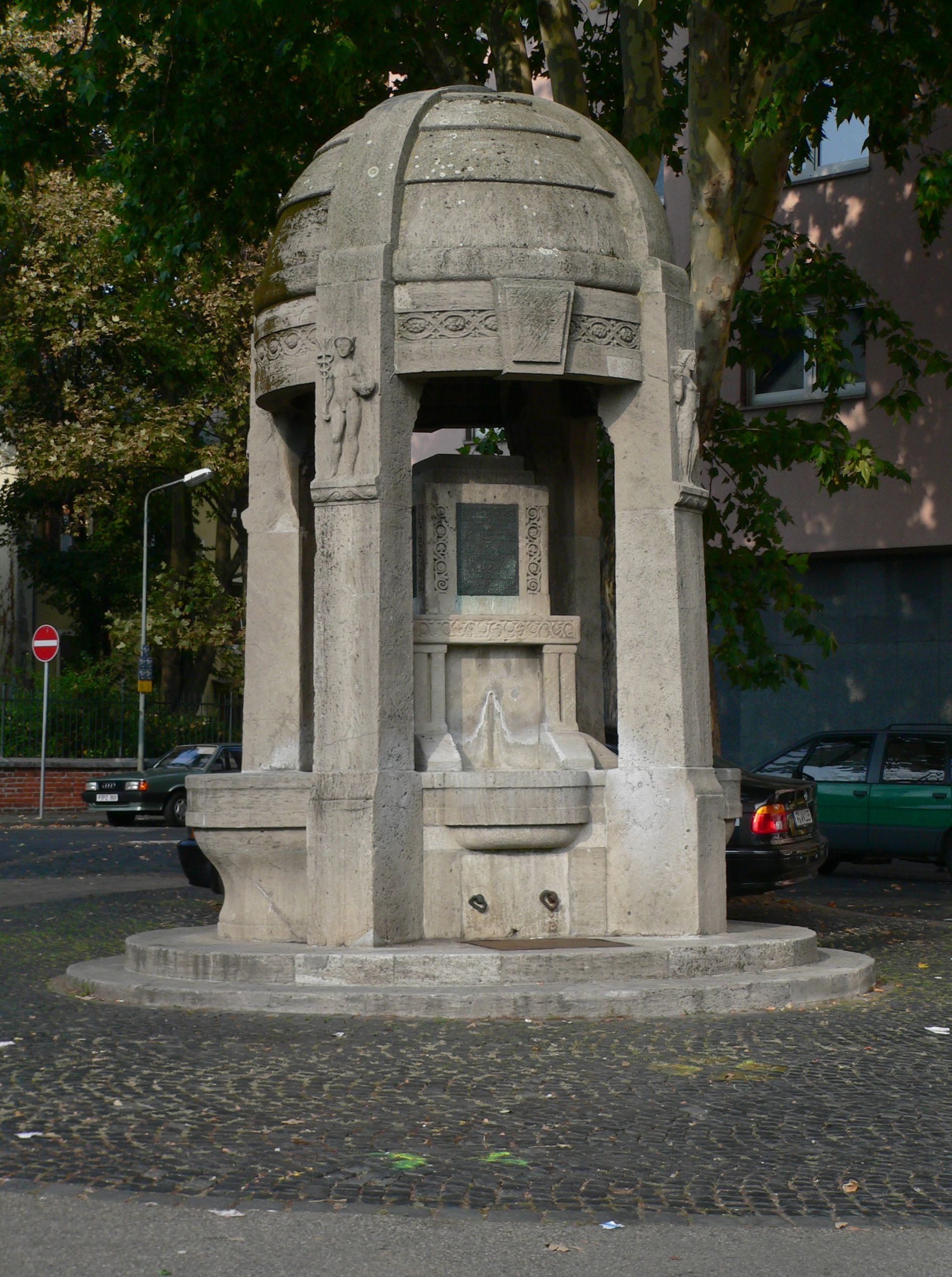 The Brüning fountain from 1910 in the northeast corner of the Höchster Markt in Frankfurt Höchst